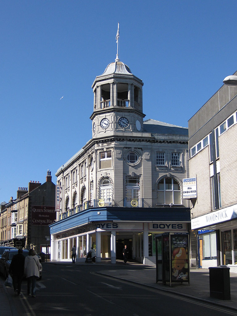 Boyes business premises, Queen Street